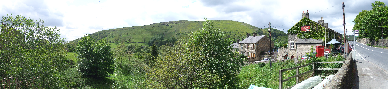 Little Hayfield is a village in Derbyshire. Lantern Pike (SK 026882) the hill, with the Inn to the right. Stitched with Hugin.